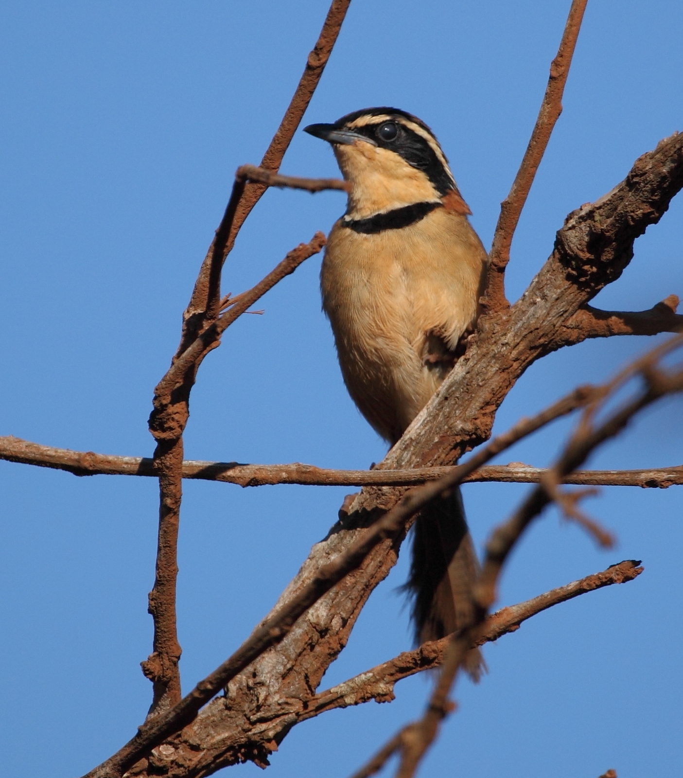 Collared Crescentchest at Chapada dos Guimarães - MT - Brazil